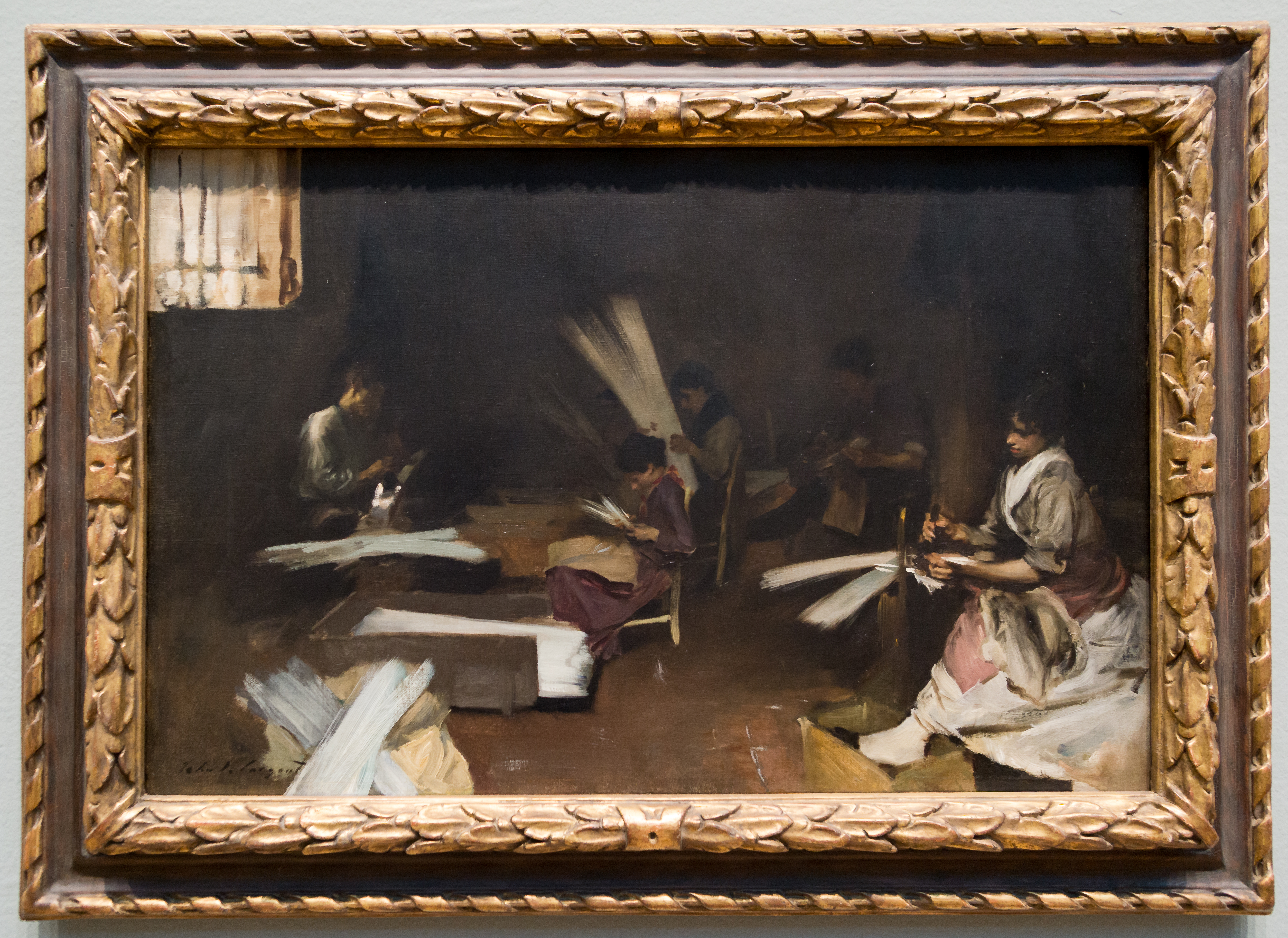 Venetian Glass Workers